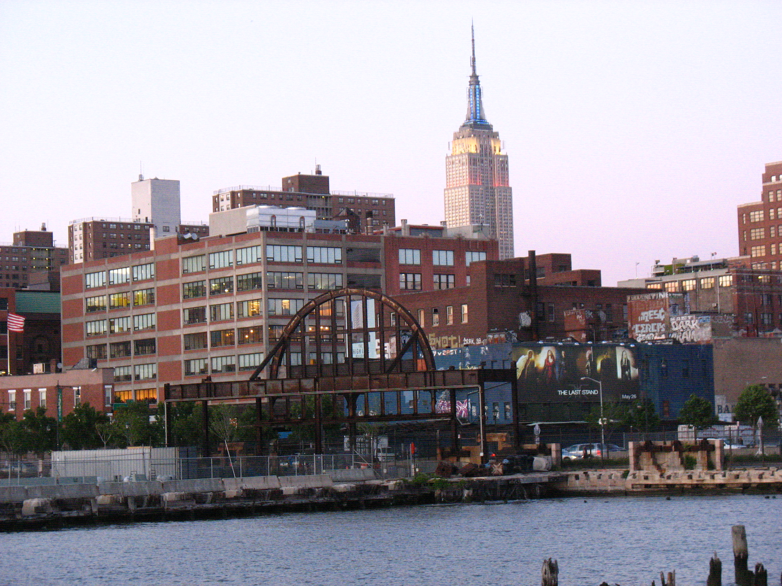 Photo by poster taken in May 2006 showing Pier 54 in New York City.